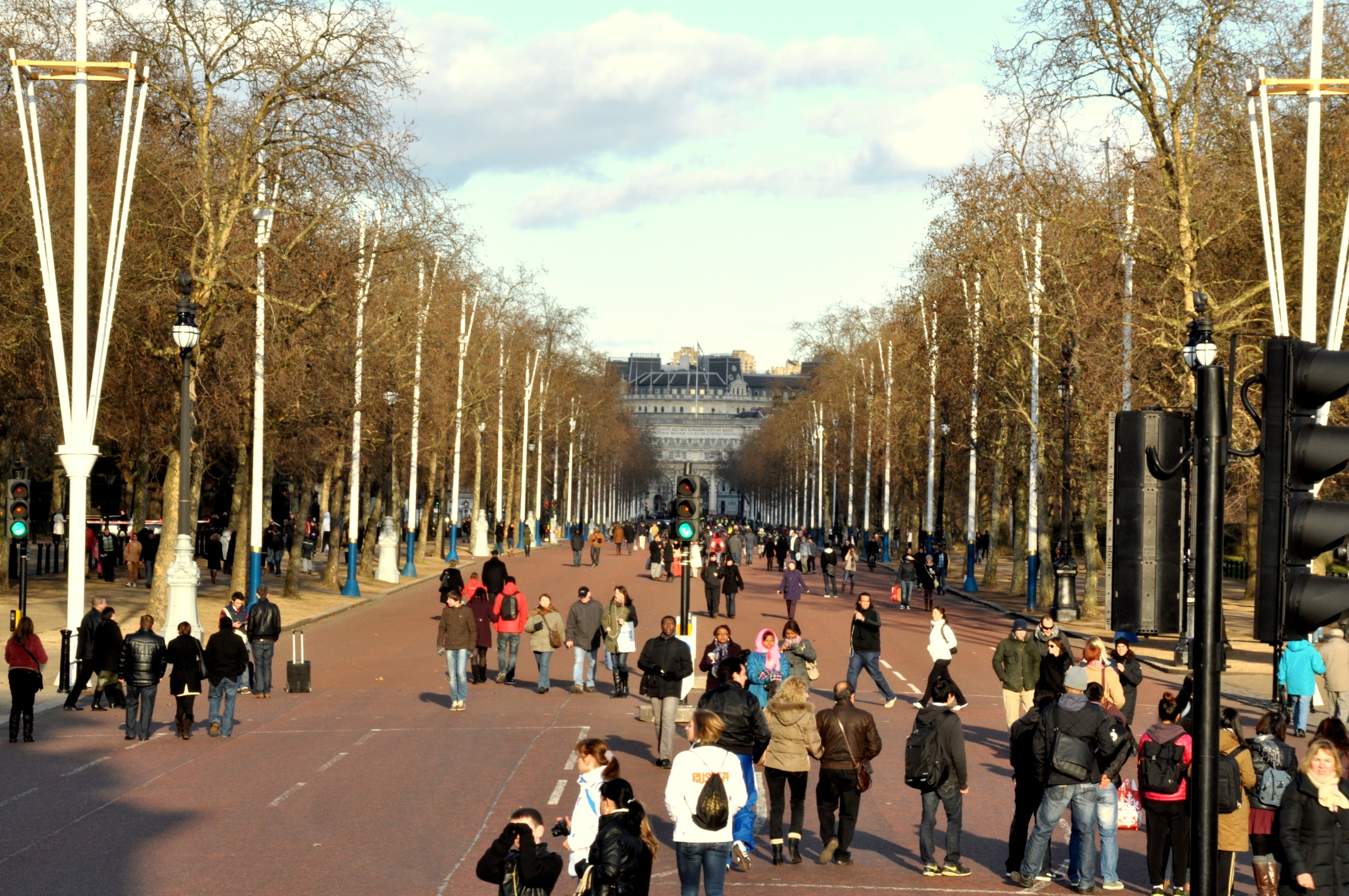 The Mall on Sunday. Looking toward Admiralty Arch.